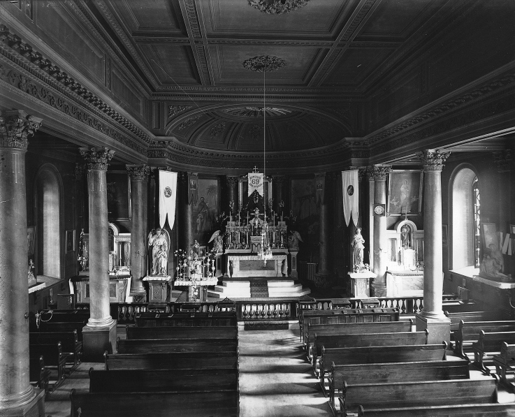 Photograph, Chapel, L'Assomption College, L'Assomption?, Quebec, Canada, 1908, Wm. Notman & Son, Silver salts on paper mounted on paper, 8 x 5 cm